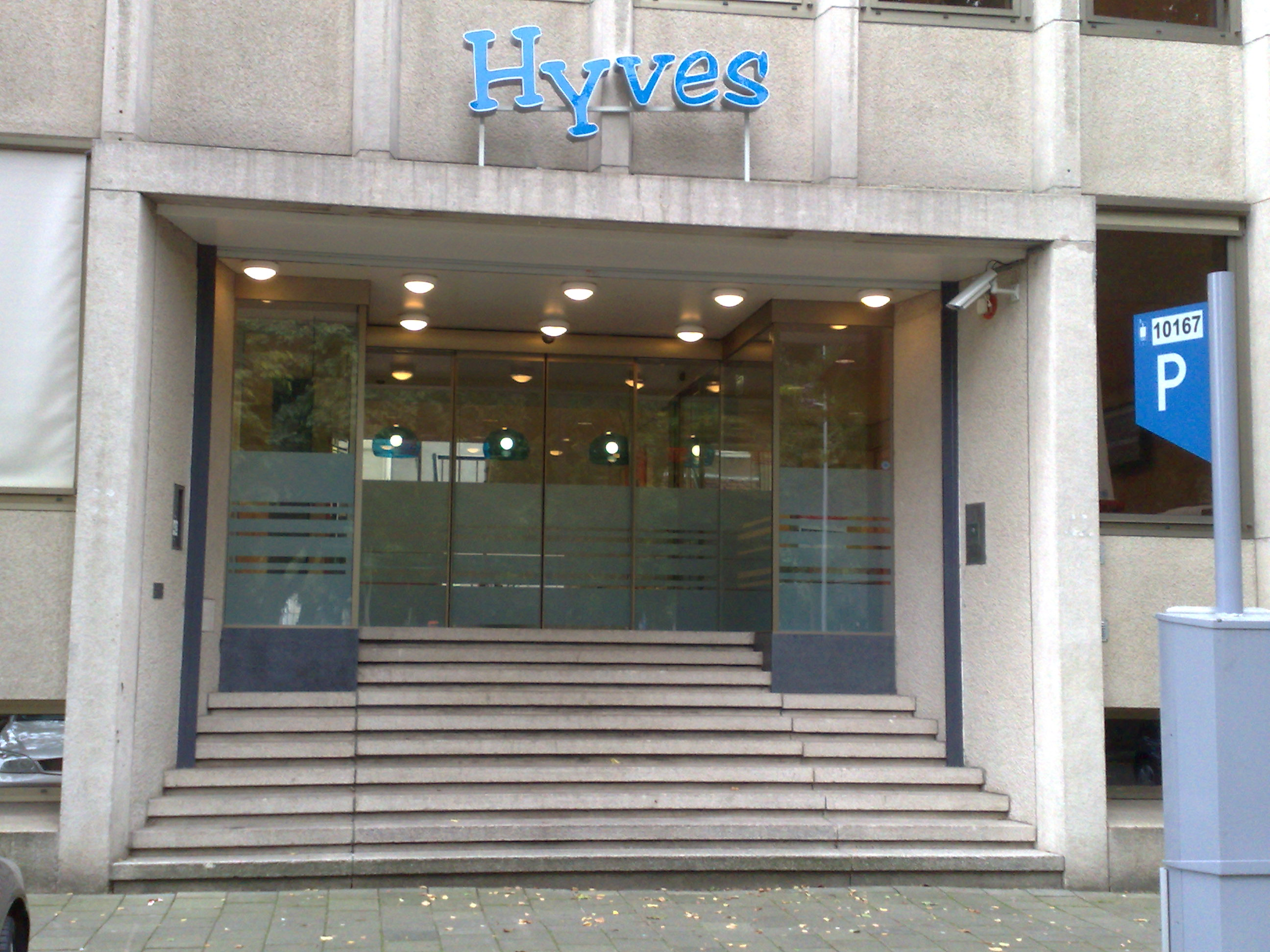 Taken at 4:20 PM on September 15, 2010 - uploaded by ShoZu moby.to/zu144f